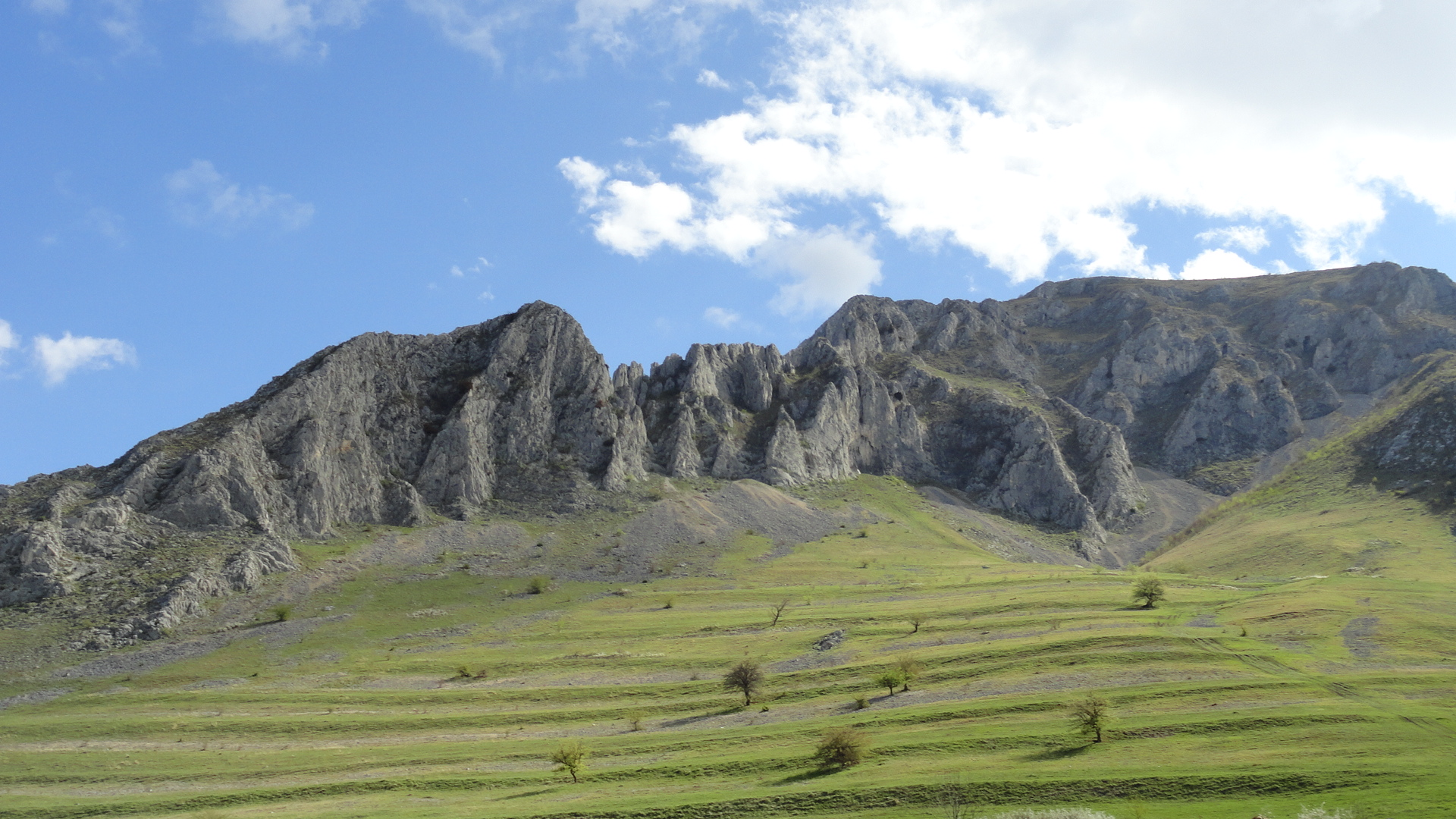 The Szekler Stone (1128 m) (hu: Székelykő; ro: Piatra Secuiului). View from Rimetea (Torockó; Eisenburg), Romania